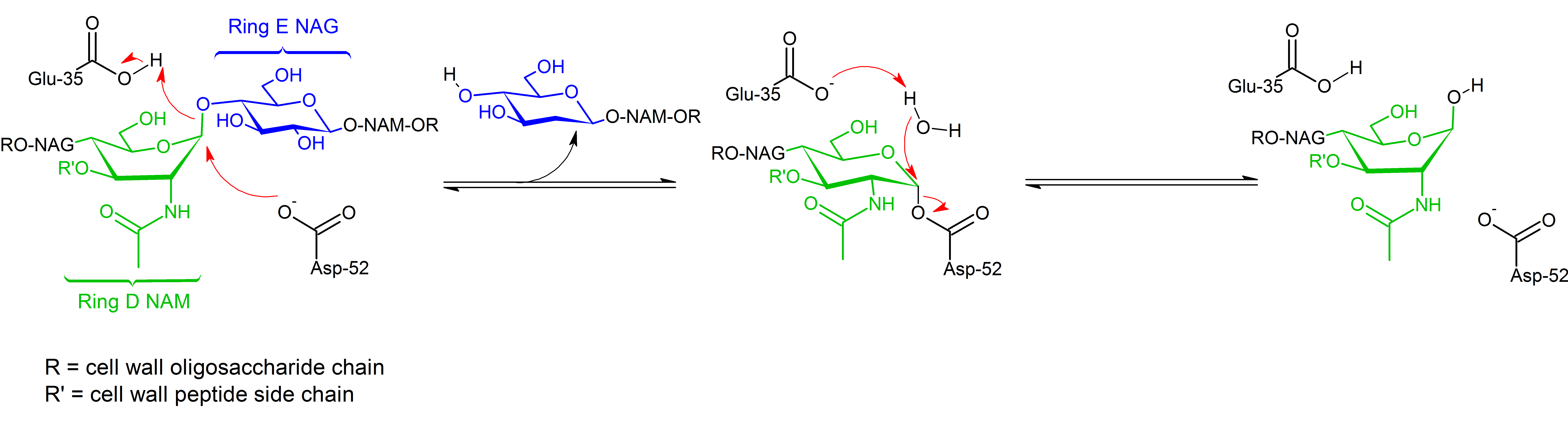 Mechanism of Lysozyme action